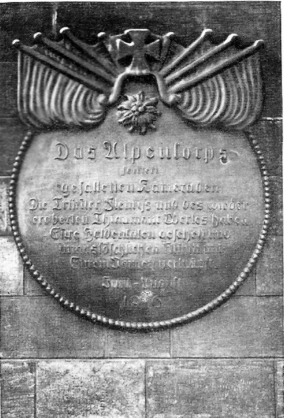 Plaque on a monument erected in Azannes August 1916, with the inscription: The Alpenkorps his fallen comrades The debris Fleury and reconquered Thiaumont-work have seen your heroics and linked indelible glory with your name. June-August 1916